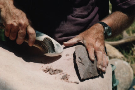 hand aex flintknepping by entler hamer